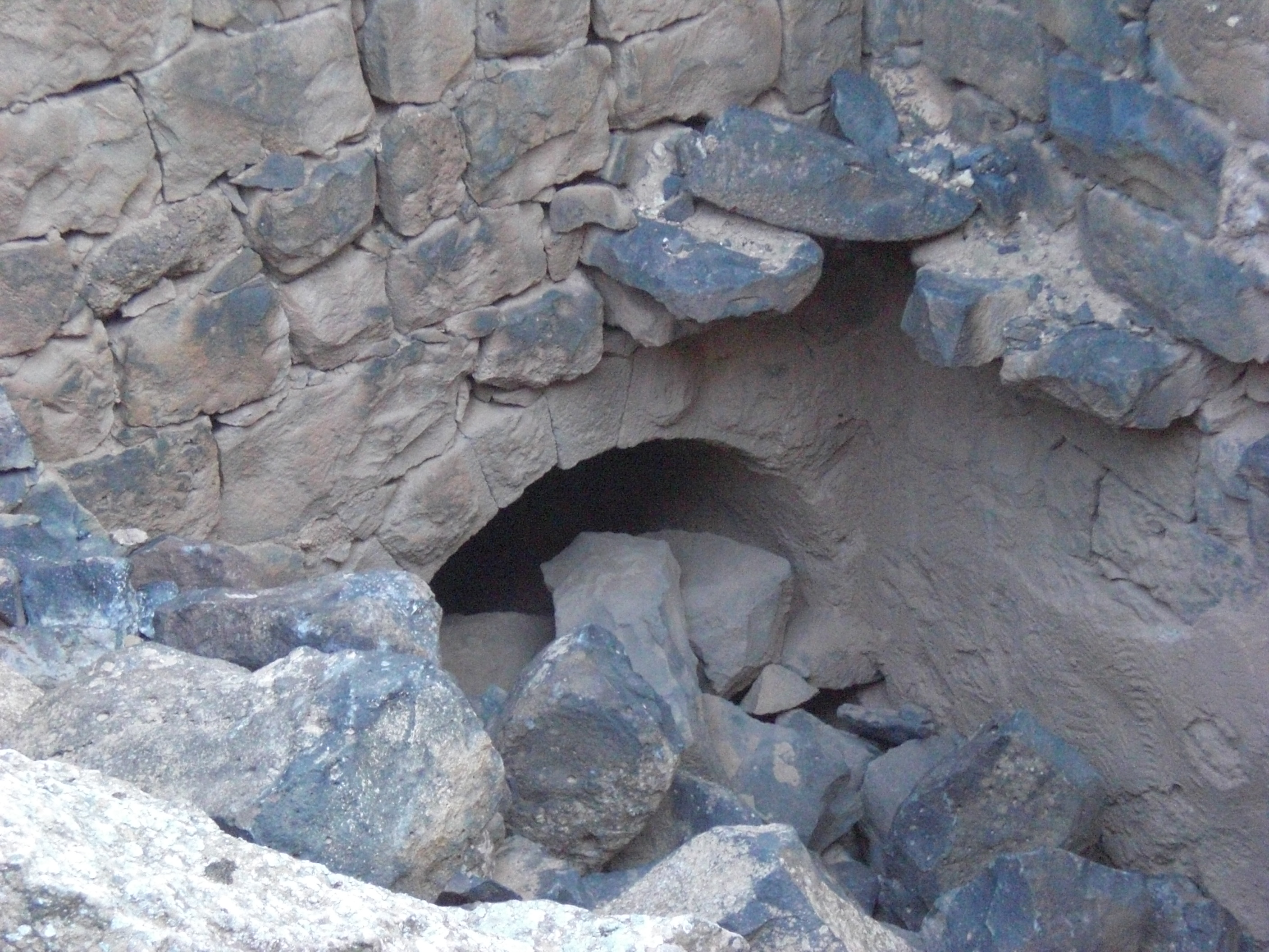 excavated corner